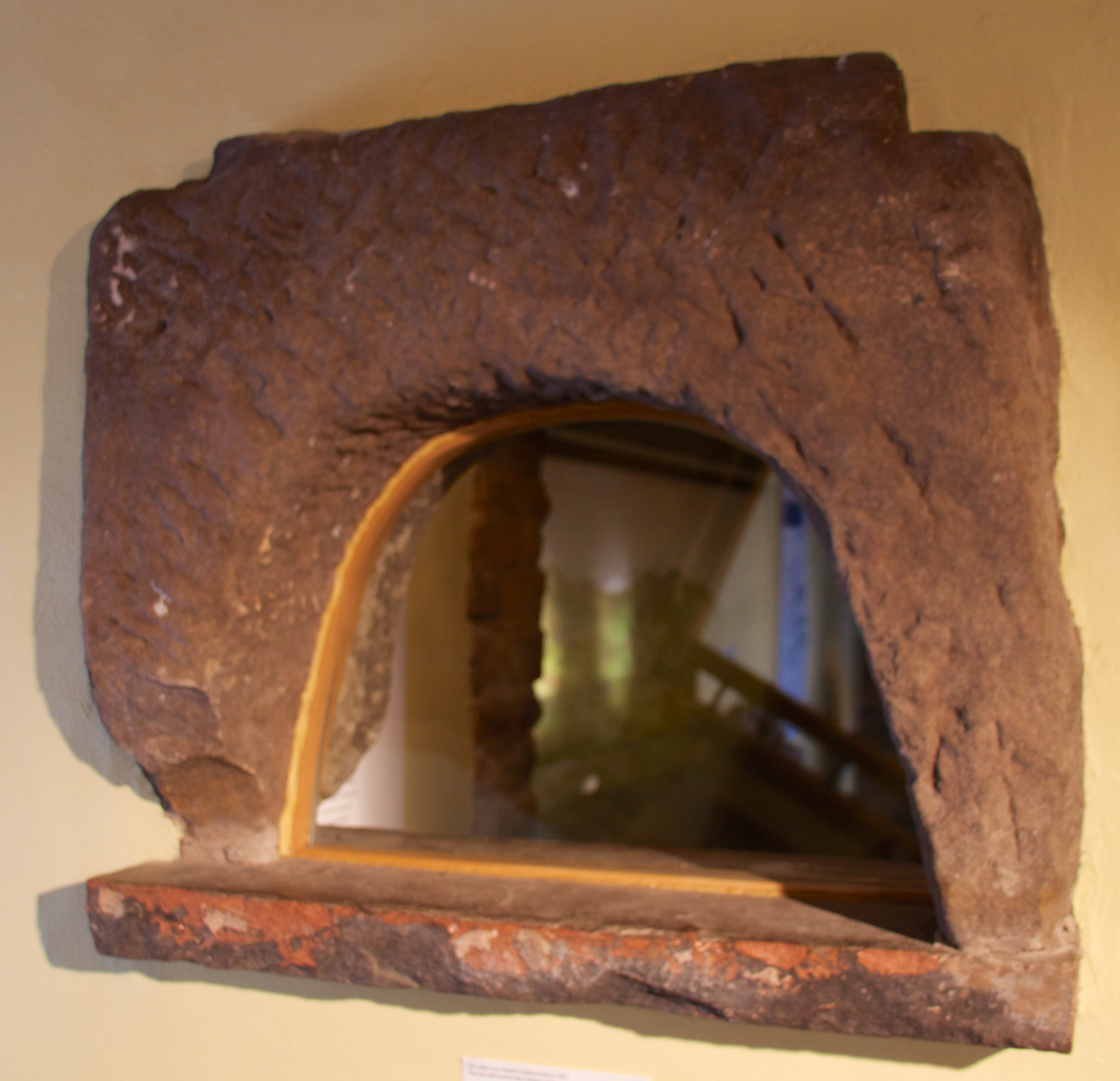 Birdoswald roman fort on Hadrian's Wall. "Original window arch from the East Gateway of the fort"